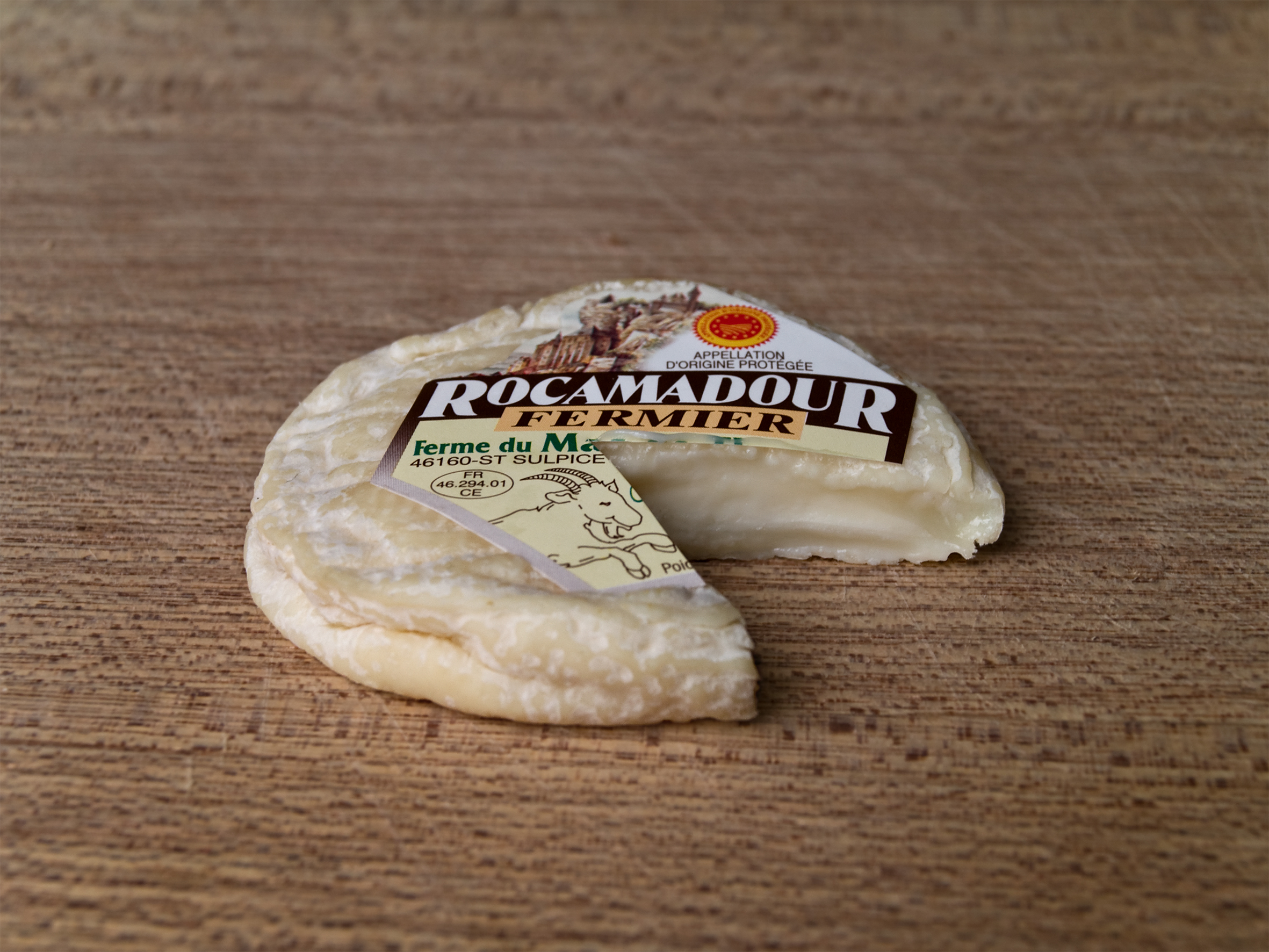 Rocamadour is a French goat's milk cheese, made in the former province of Quercy. It is labelled Protected Designation of Origin (PDO). Its name is derived from the commune of Rocamadour, in the Lot department in southwestern France.